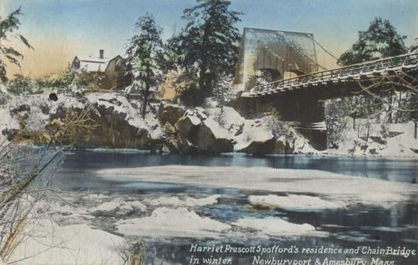 Residence of Harriet Prescott Spofford, Deer Island, Amesbury, MA; from a c. 1910 postcard.